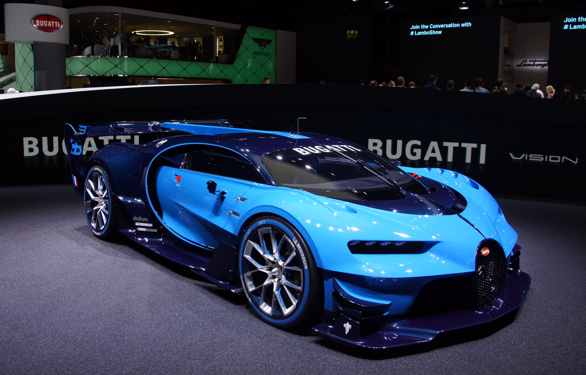 Bugatti Vision at IAA 2015 in Frankfurt